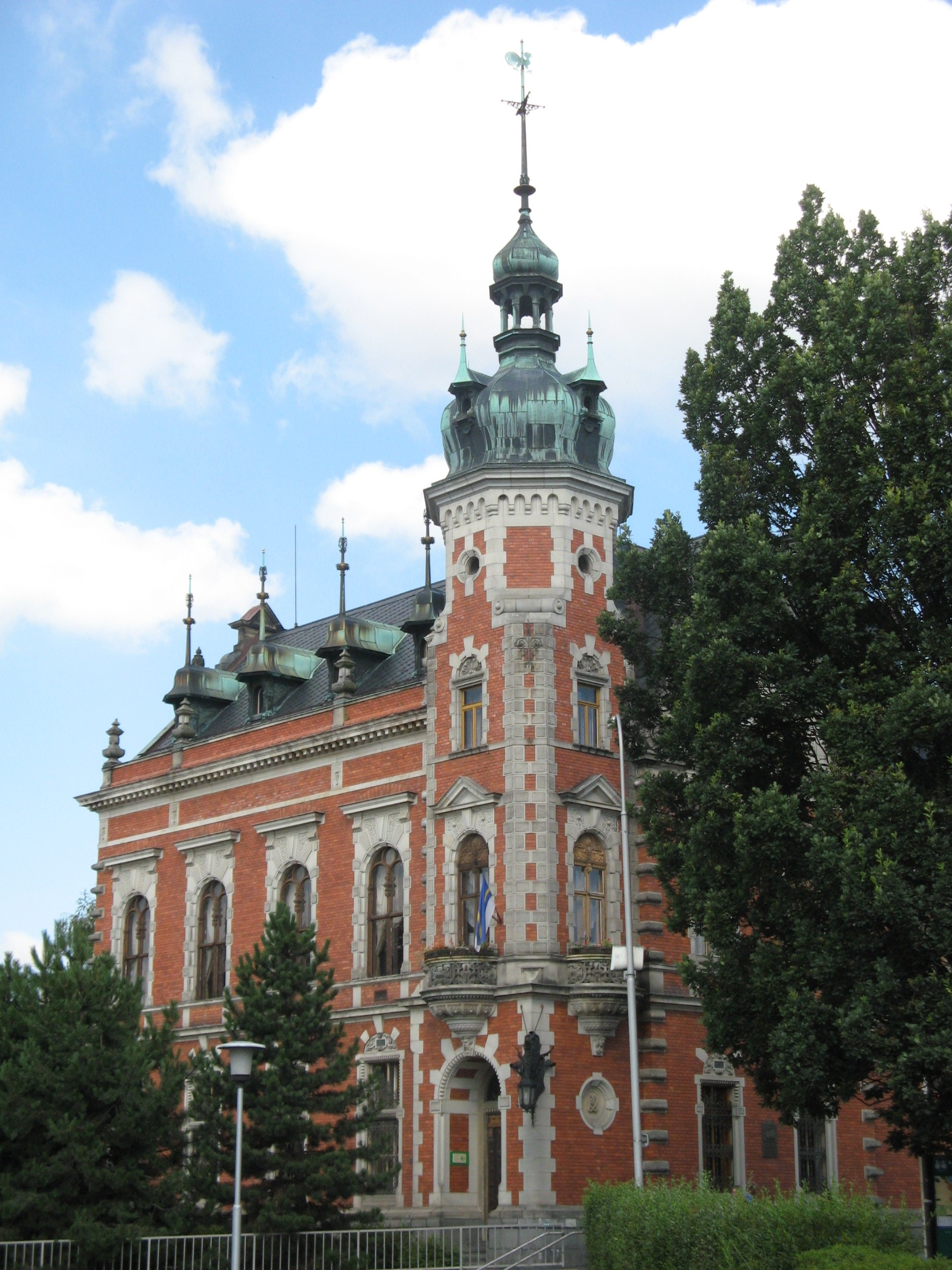 Ottendorfer´s Hause )1892), Svitavy - Czech republic